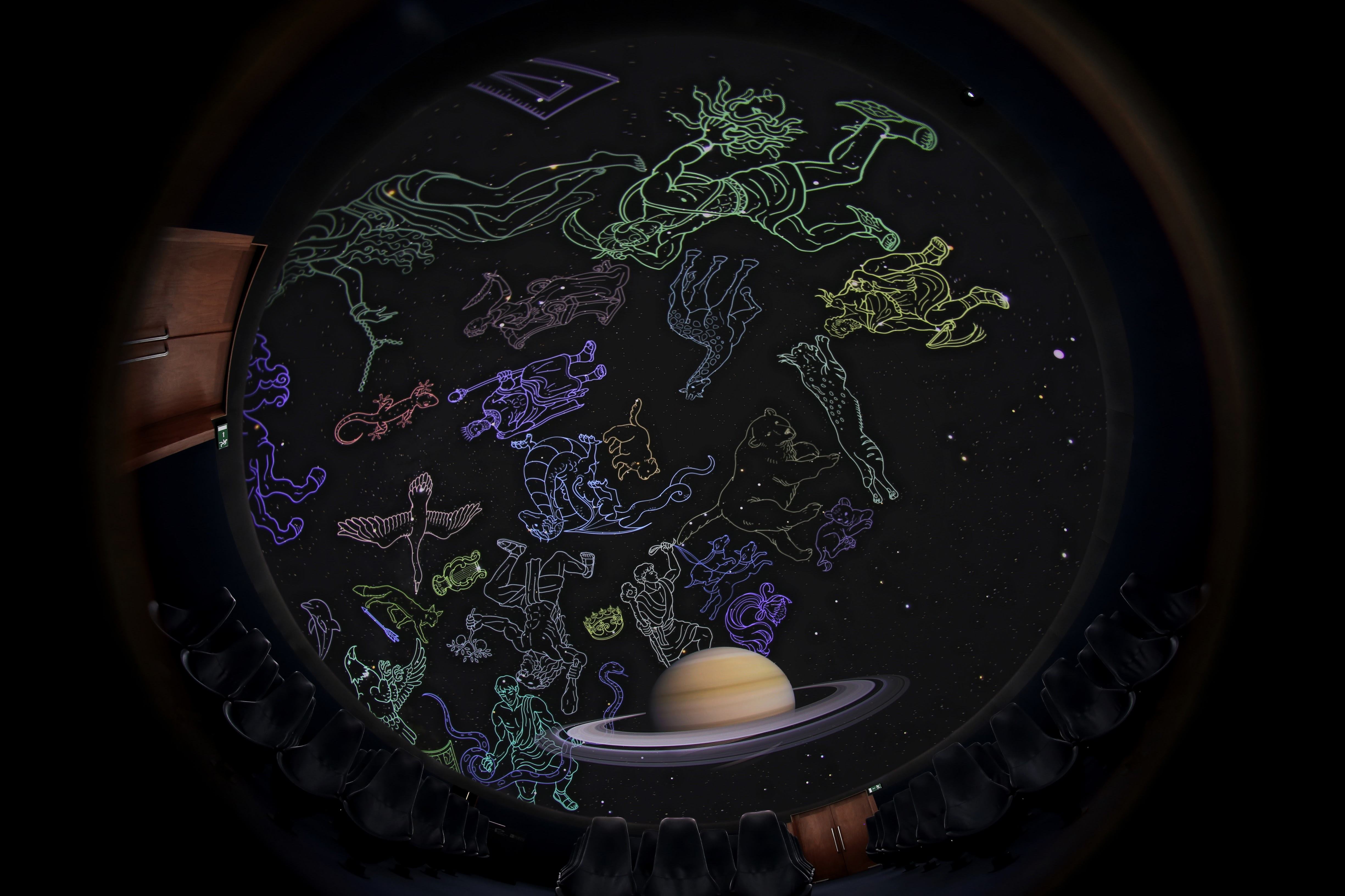 Fulldome simulation of the sky as seen from the Earth's surface, with constellation classical drawings and the planet Saturn zoomed in.